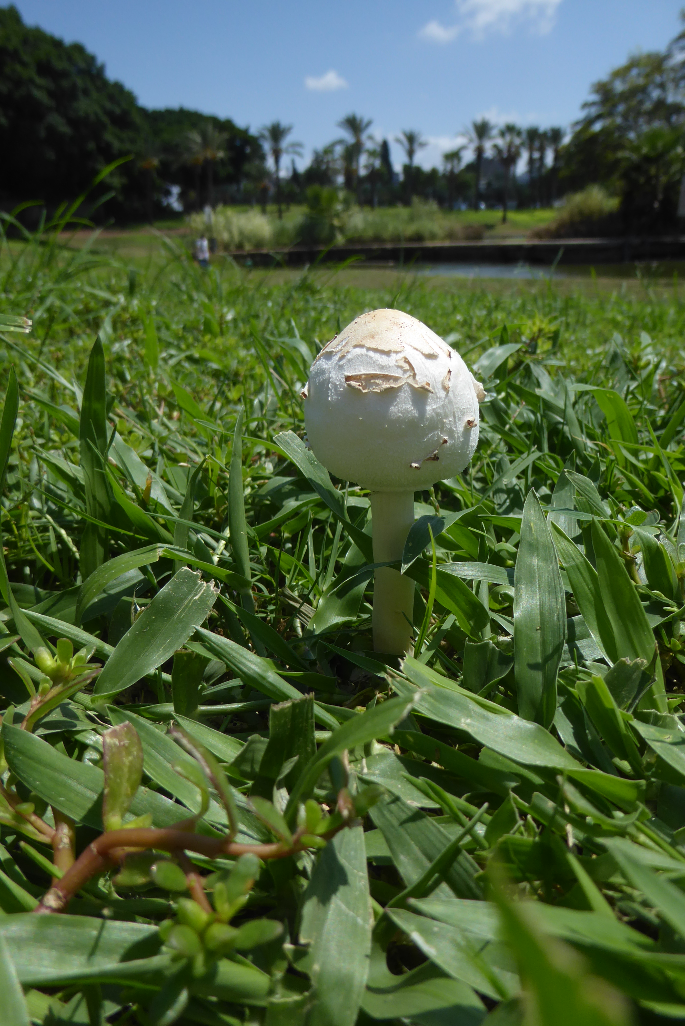 Edith Wolfson Park